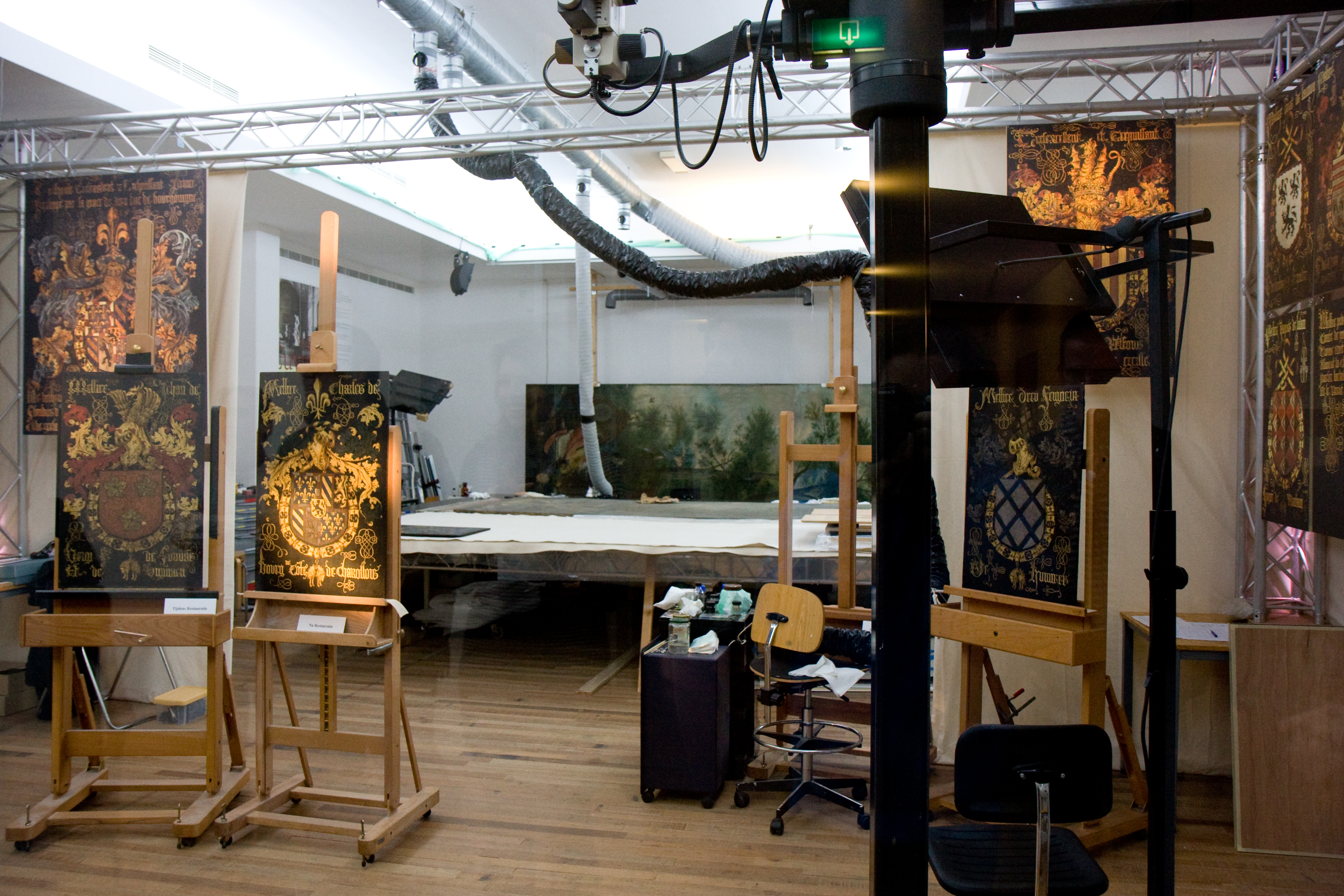 View of the permanent SRAL workshop in the Bonnefantenmuseum, Maastricht, Netherlands. SRAL (Stichting Restauratie Atelier Limburg) is a well-known restoration workshop in the Netherlands.